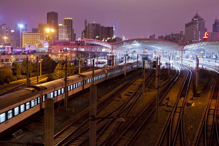 Passenger Train Z92 leaves Shanghai Railway Station to Xi'an